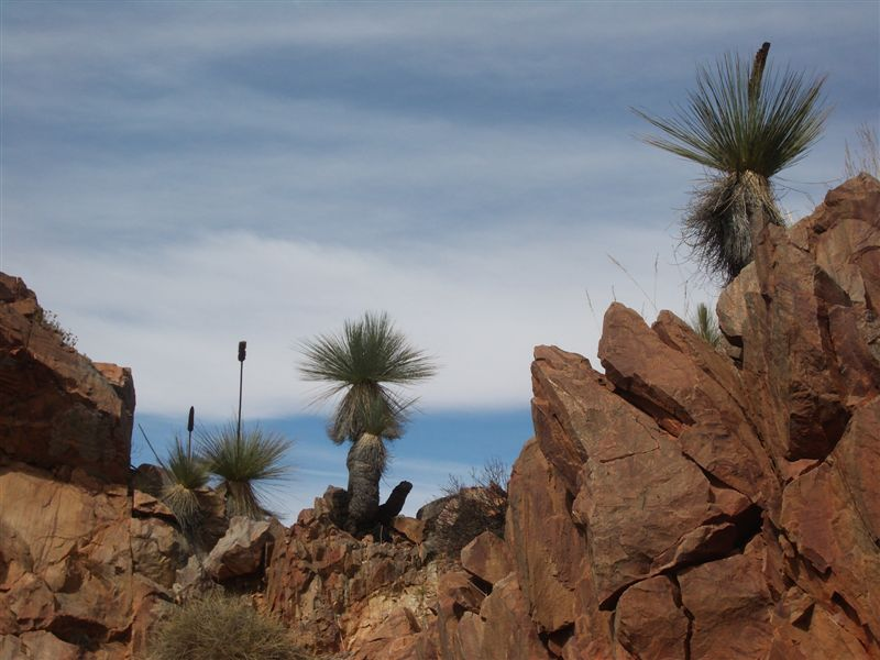 Typical vegetation on the arid ridges east of Yudnamutana, Northern Flinders Ranges, Australia.